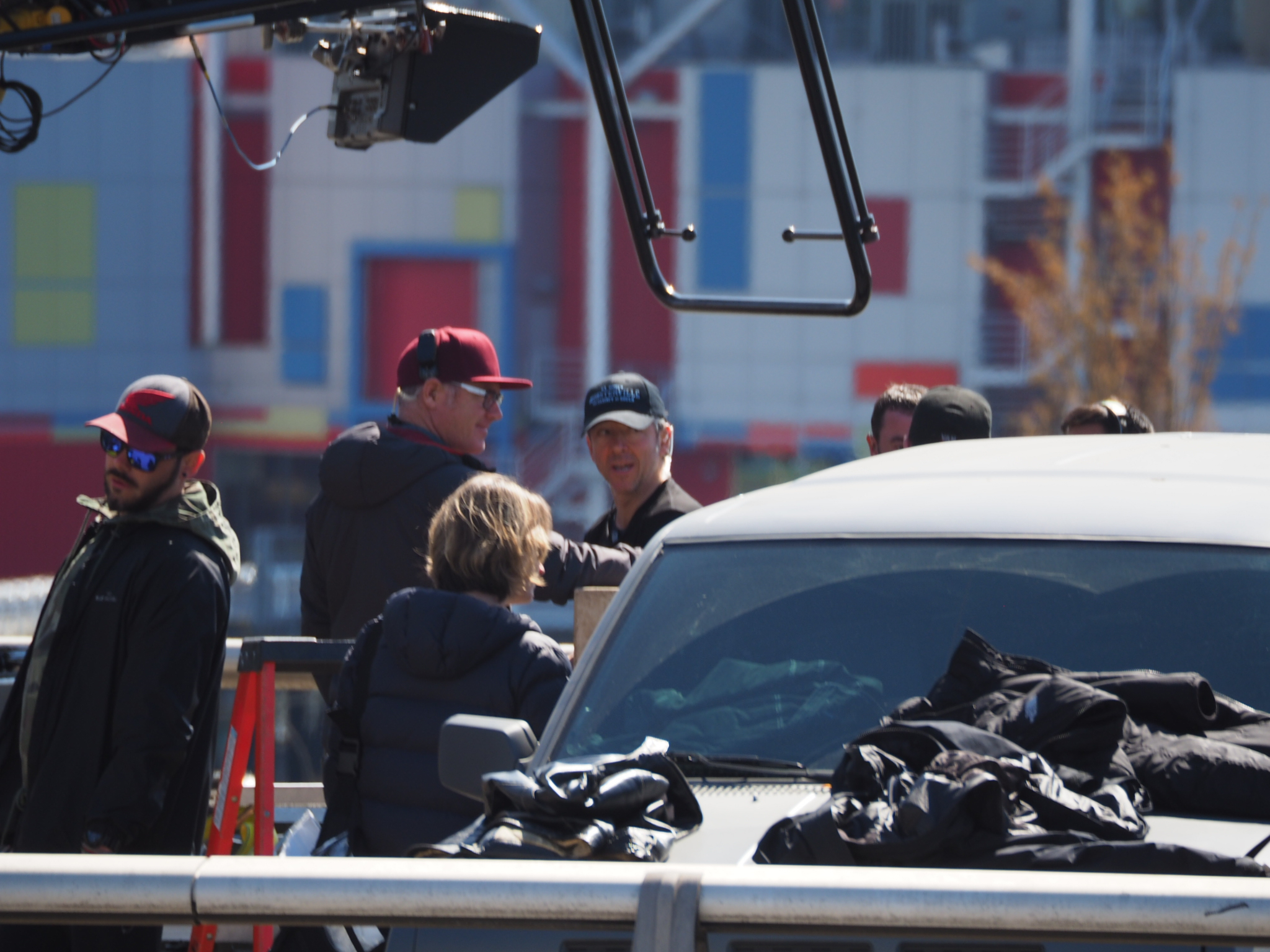 Deadpool film set in Vancouver, British Columbia.